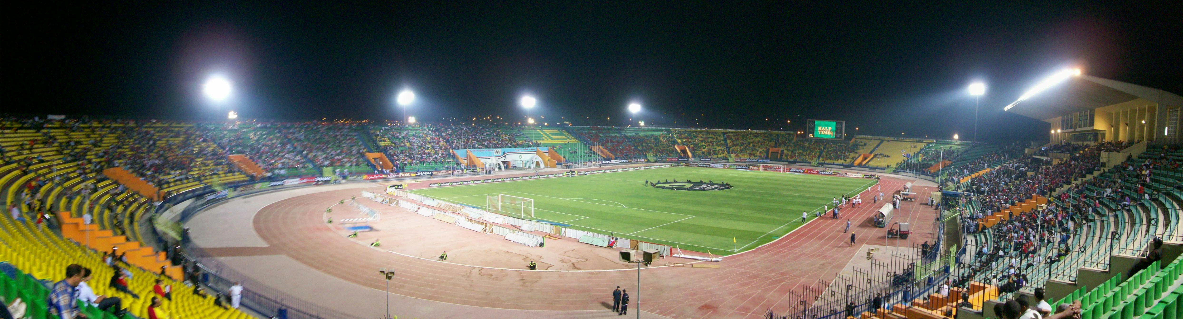 Panorama of the Military Academy stadium during a friendly international game between Egypt And Guinea on August 12, 2009.